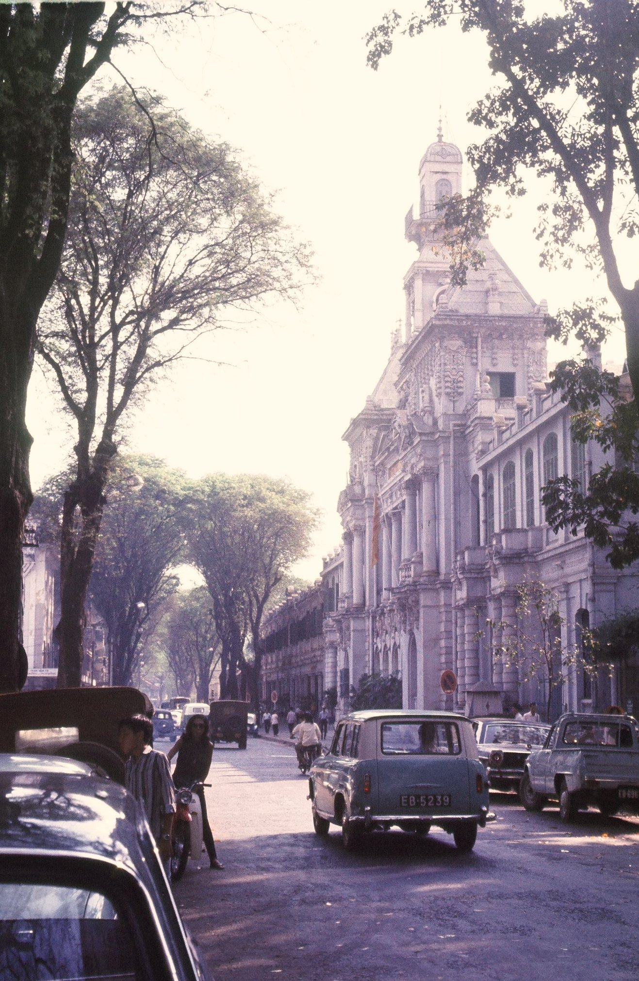 Saigon City Hall in 1968.